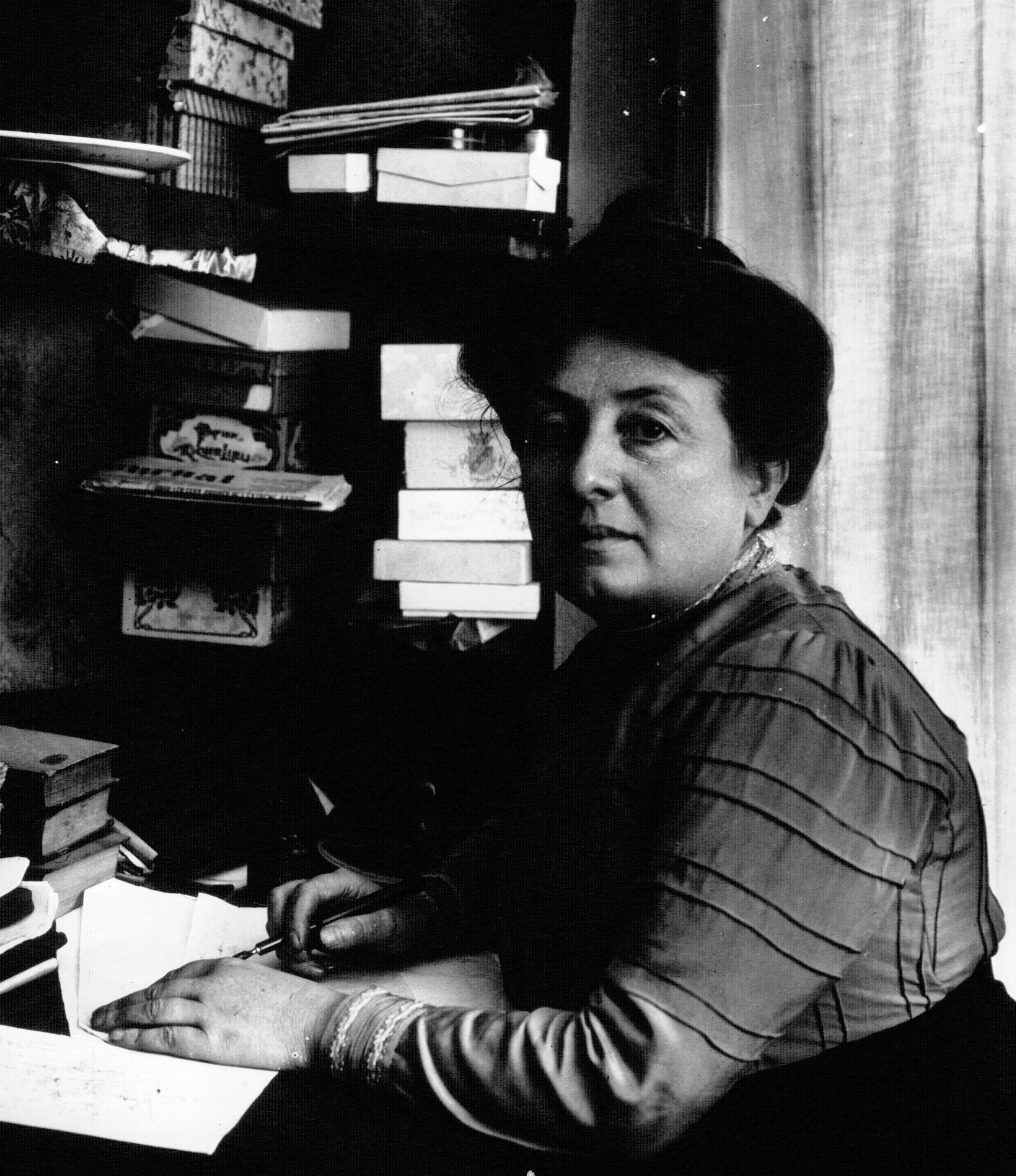 French novelist Marguerite Audoux (1863-1937).